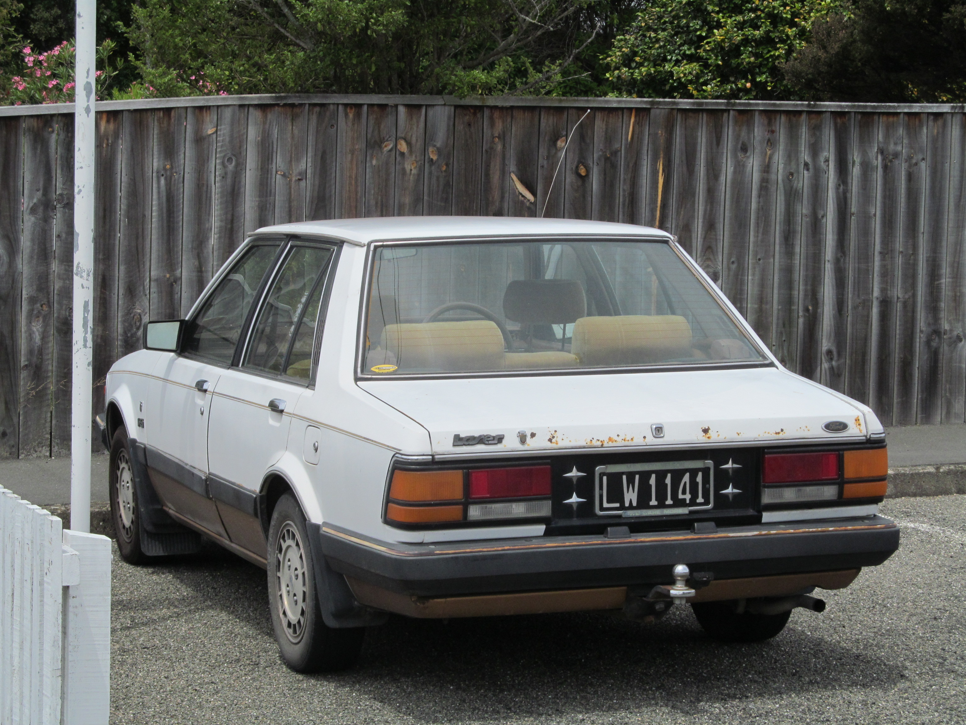 A rough but mostly solid looking high spec Laser Ghia seen outside a Nelson church last year. Not sure where the stars came from... Owing to its position near a church on a Sunday and the original Nelson M.S. Ford dealer plate surrounds I'd say this is probably owned by an older person (and has been for a long time.)